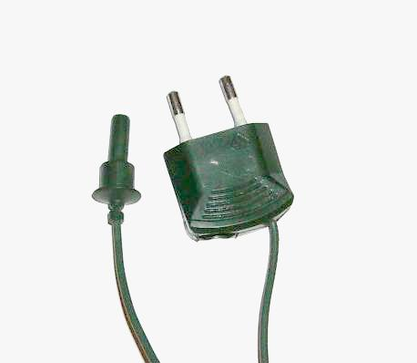 Mains connector as used for string lights (Christmas tree lighting set). Lamps can be turned off by disconnection of the single wire.